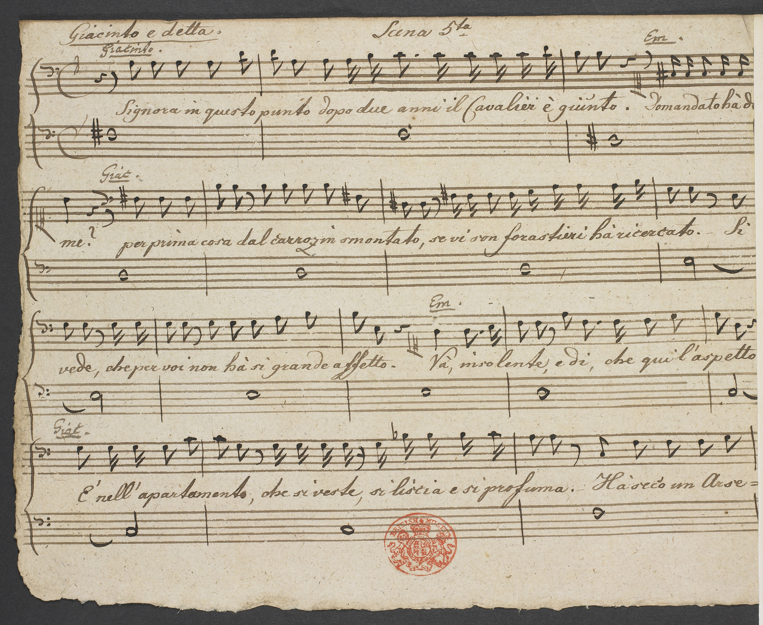 Il viaggiator ridicolo. Possibly in the composer's hand.